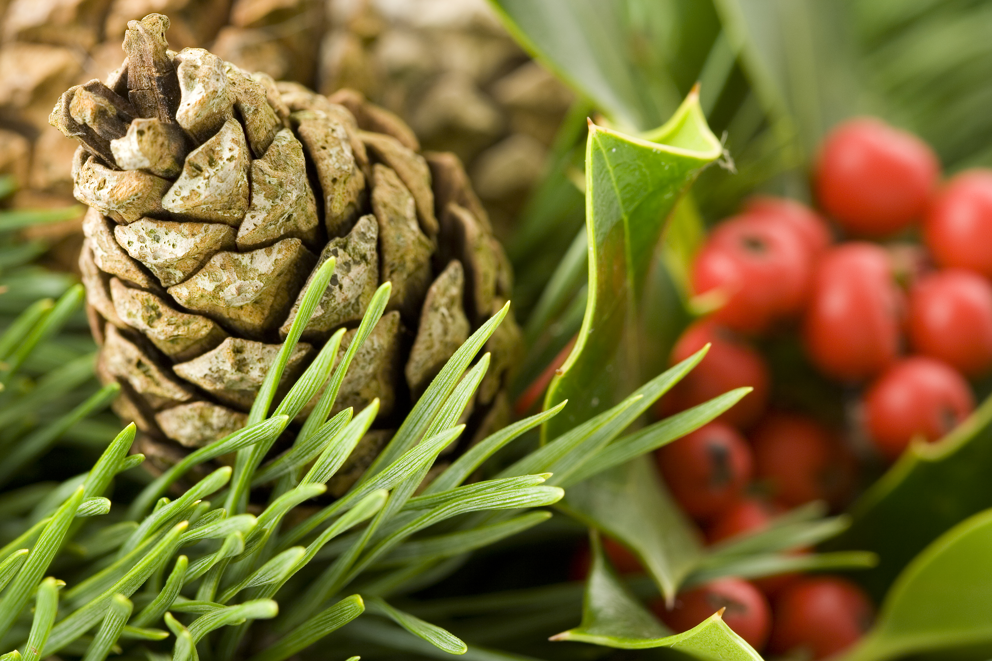 A cone and holly.